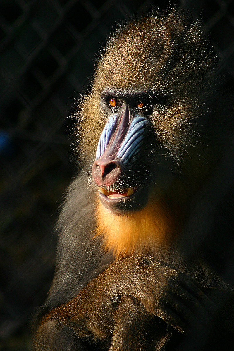 Mandrill (Mandrillus sphinx). The primate looks almost human despite the colorful face. The soft morning light through the last yellow foliage on the trees, and zoom made it possible to take this photo despite the ugly iron cage that I had to work around to picture this beautiful primate. Tierpark Hagenbeck, Germany.